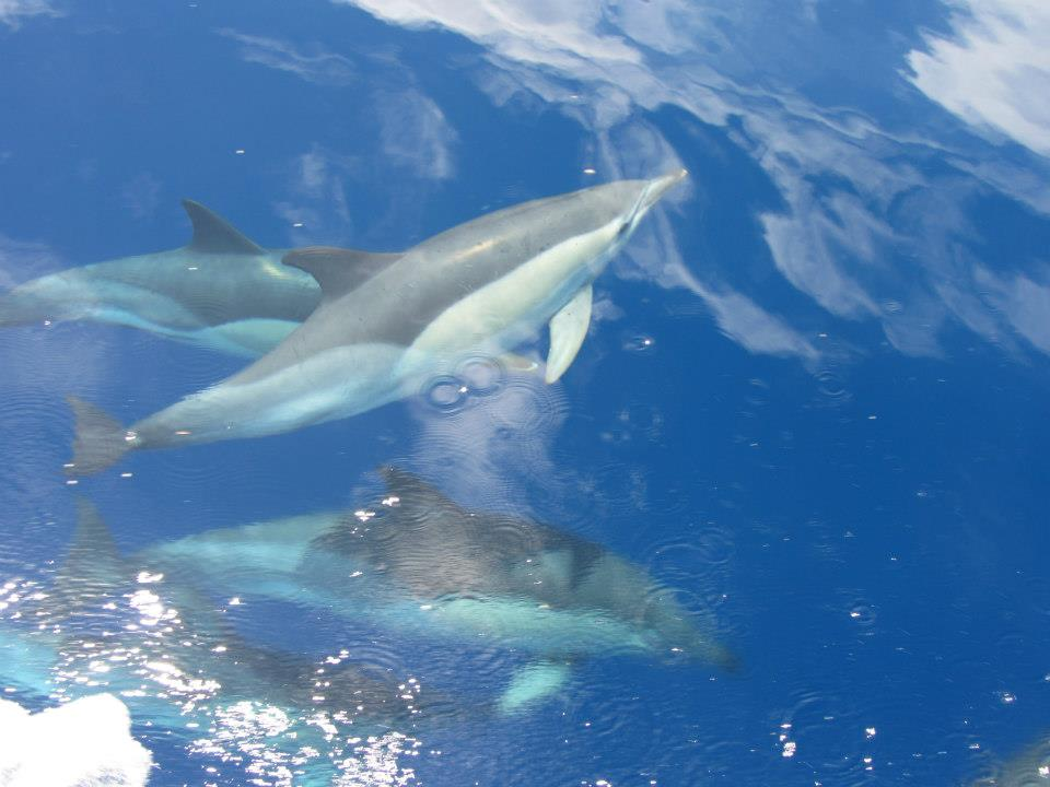 Tours start from Ponta Delgada. Usually you see see turtles, dolphins and humpback whales.